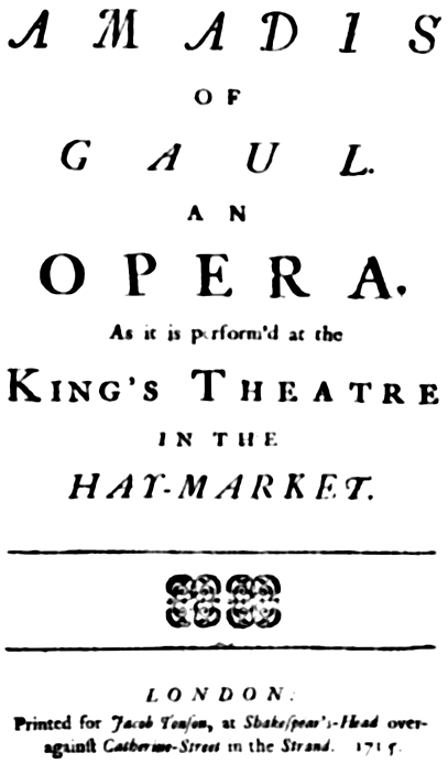 Georg Friedrich Händel - Amadigi di Gaula - title page of the libretto - London 1715